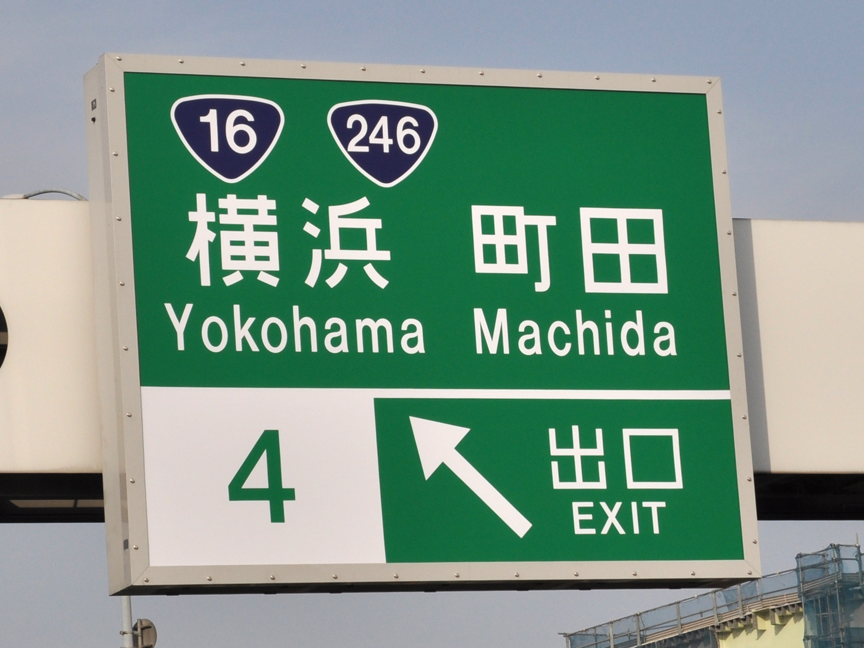 Exit sign of Yokohama Machida IC on Tōmei Expressway in Japan.